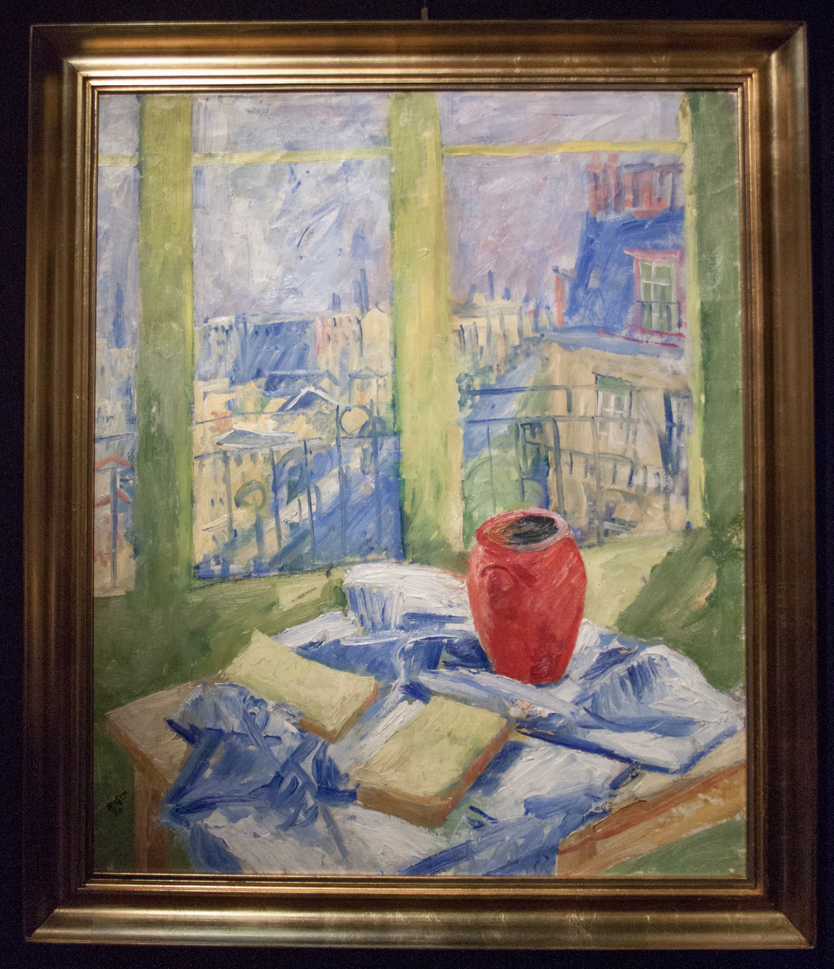 Andor Basch - Still-life in the Paris atelier, 73x60 cm, Oil on canvas.